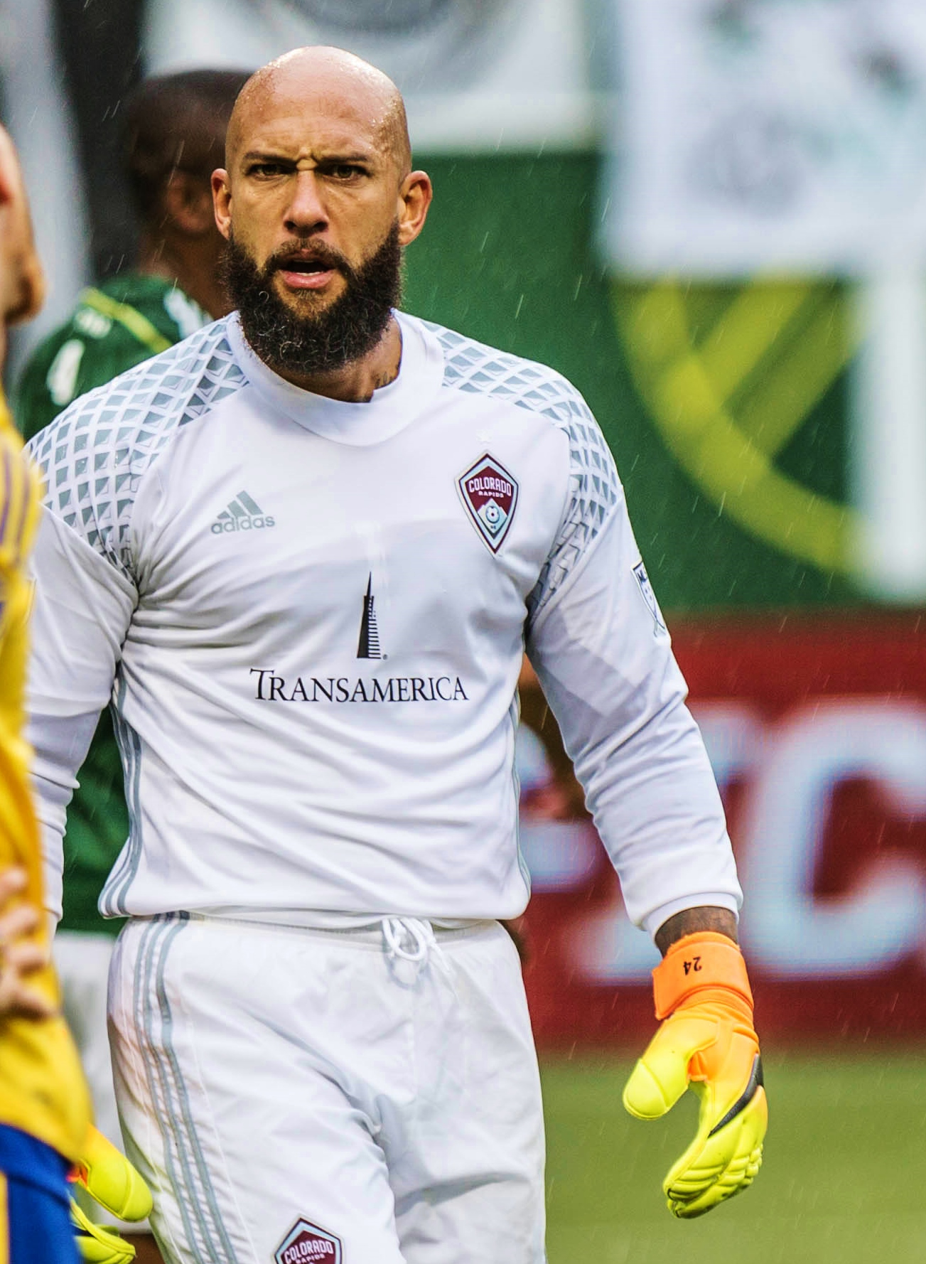 Tim Howard